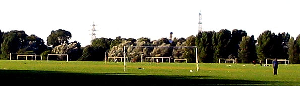 Fin Fahey 2005